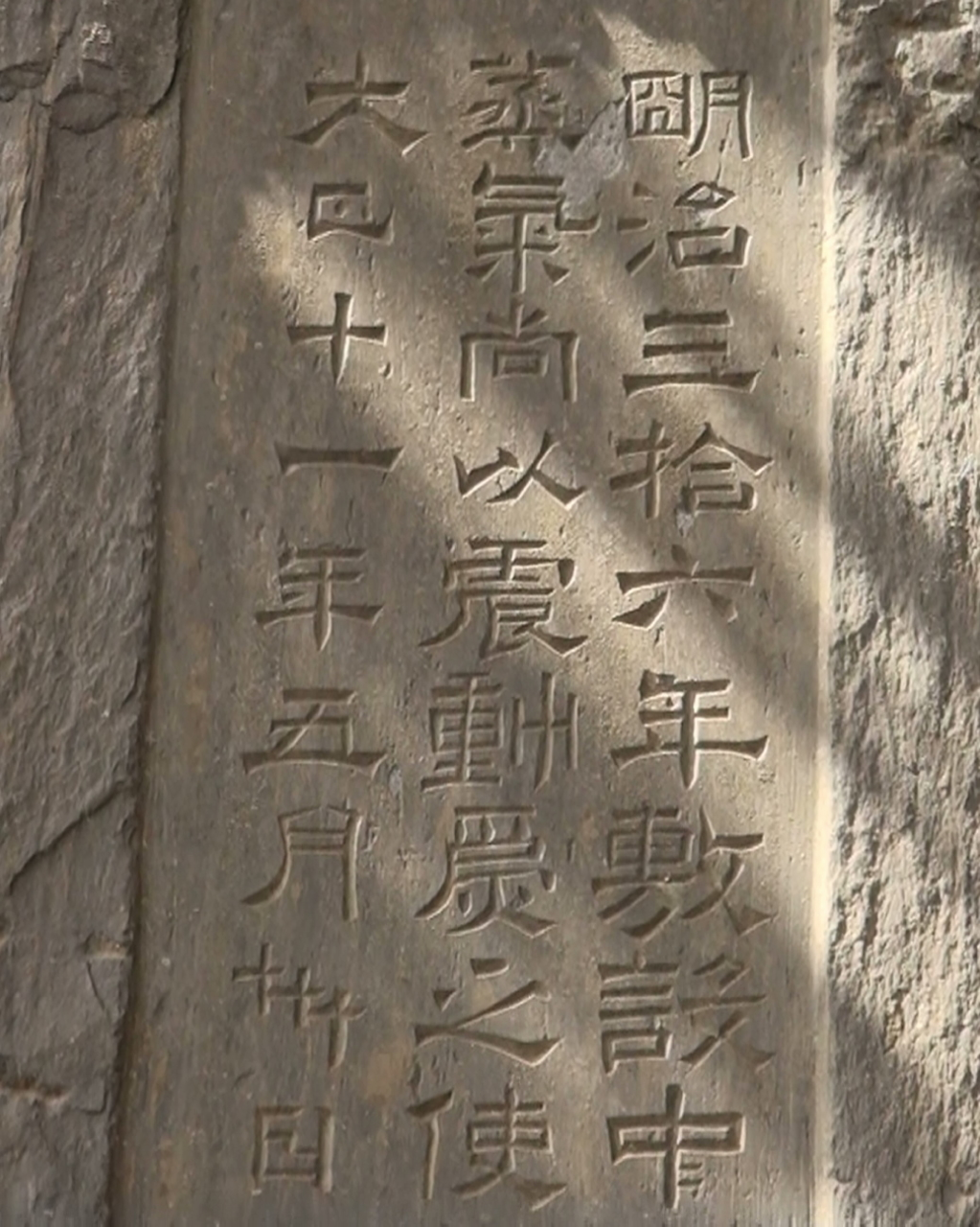 Backside of Shingen-ko Hatakake-matsu pine tree Monument